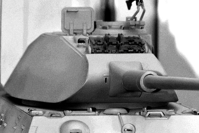 Detail of a model of the early, so called "Porsche" turret of a Tiger II